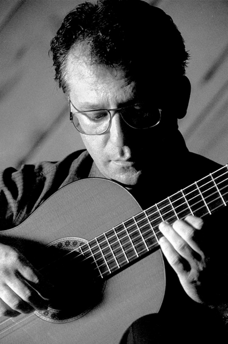 Pepe Romero at Bach Dancing & Dynamite Society, Half Moon Bay CA 1988.